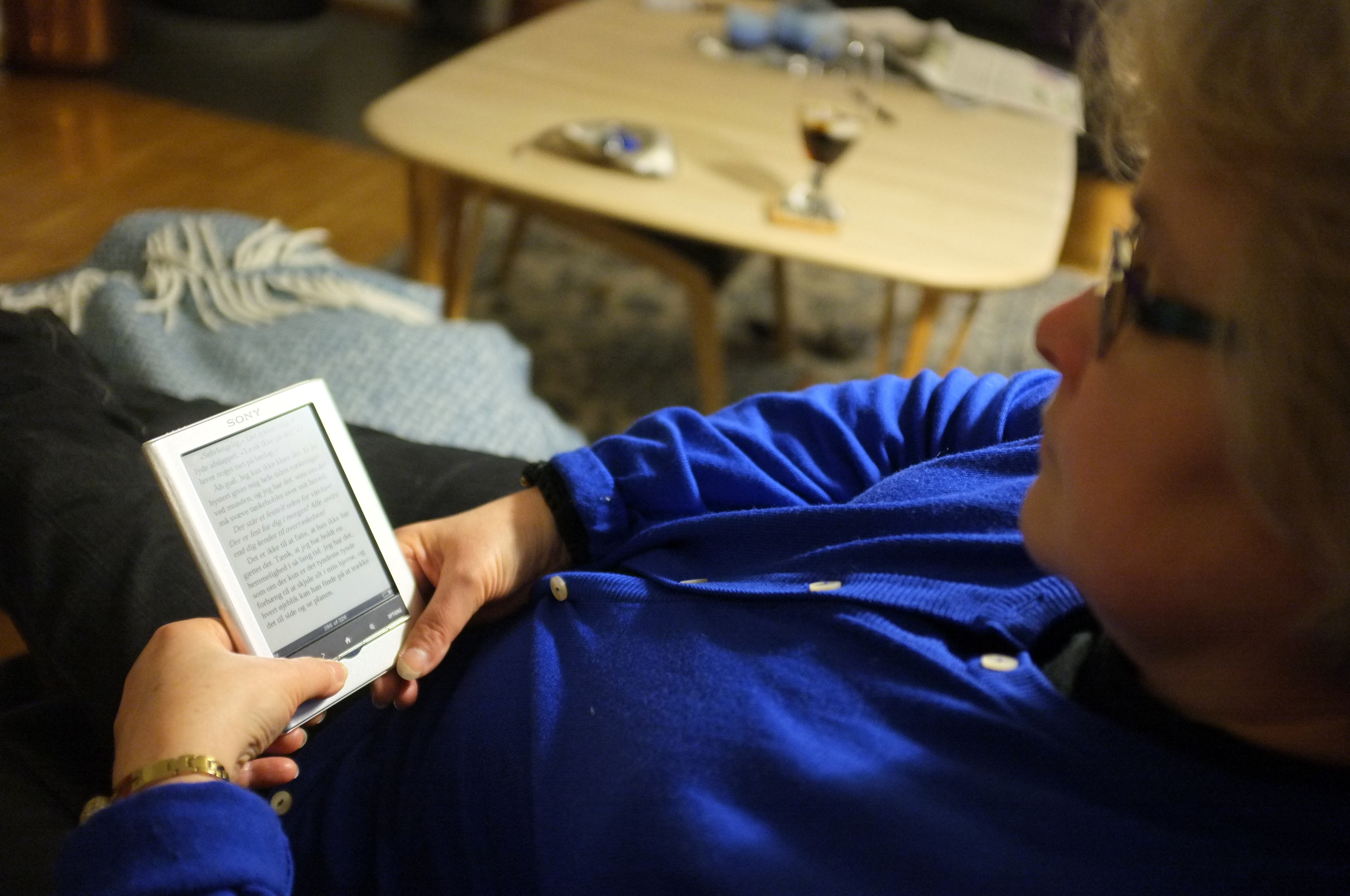 eReading may become the future of books